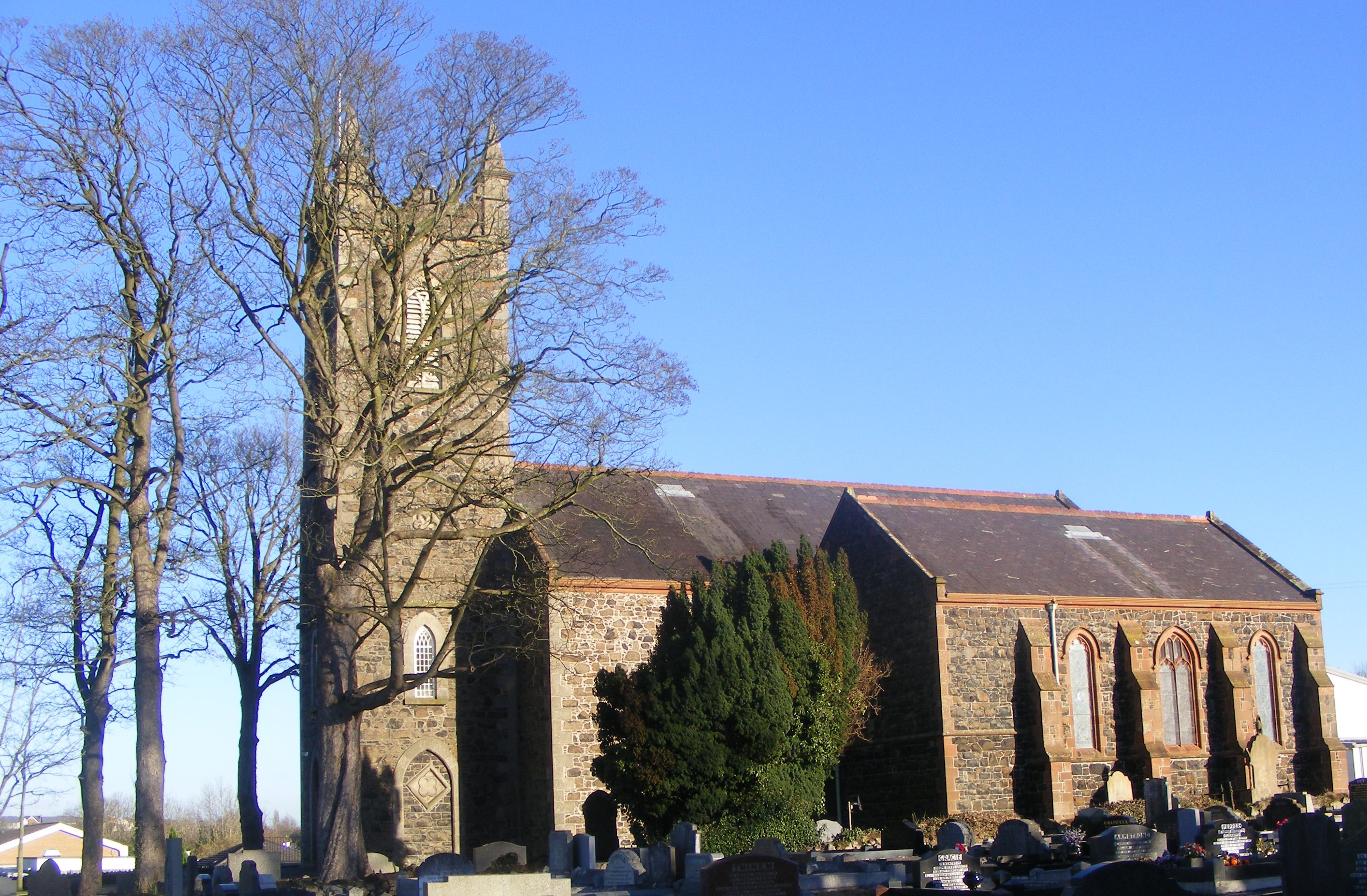 St Gobhan's parish church (Church of Ireland), Seagoe, Portadown, County Armagh, Northern Ireland, UK. The foundation stones of the present church were laid in 1814. It replaced an older church 100 yards away in Seagoe cemetery. St Gobhan (circa AD 560–639) was Abbott of Old Leighlin in County Carlow.